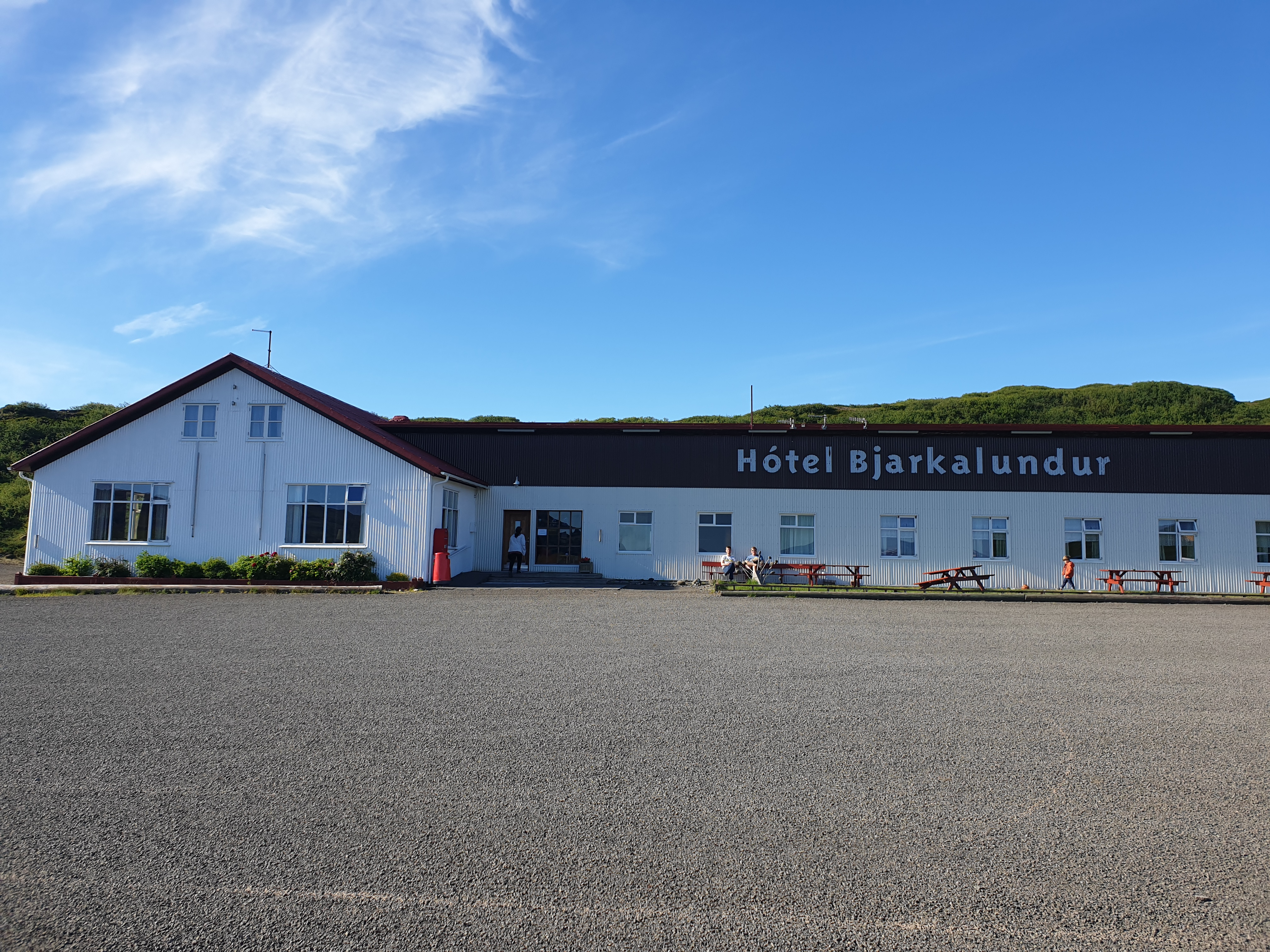 Hótel Bjarkalundur